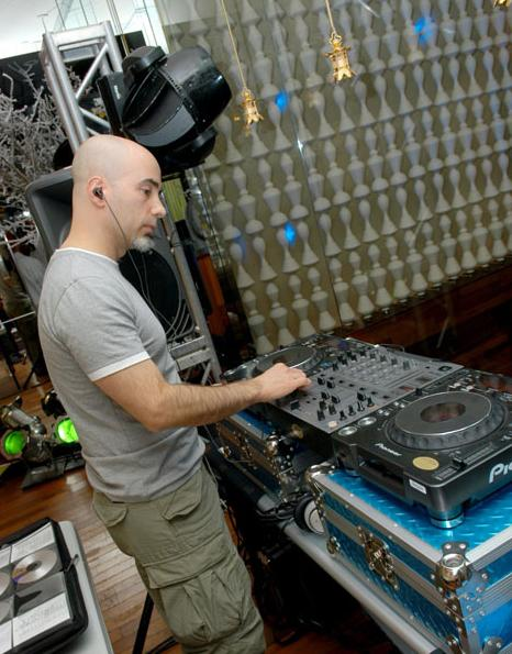 Rafe Gomez - author, lecturer, marketing consultant, music producer, songwriter, and DJ.